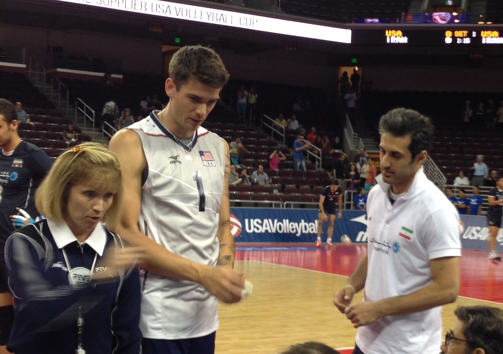 Saeid Marouf and Matt Anderson (volleyball)